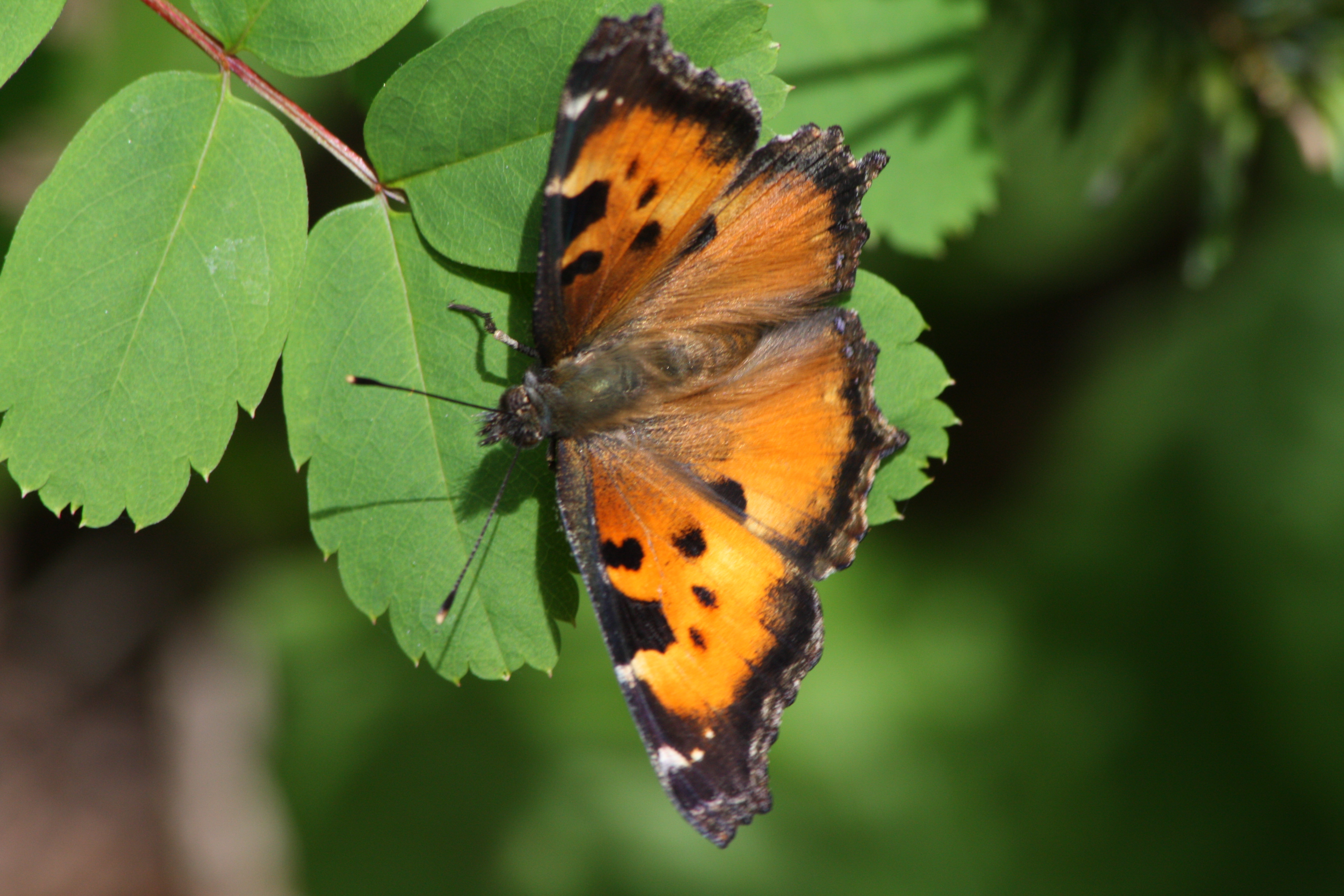 California Tortoiseshell